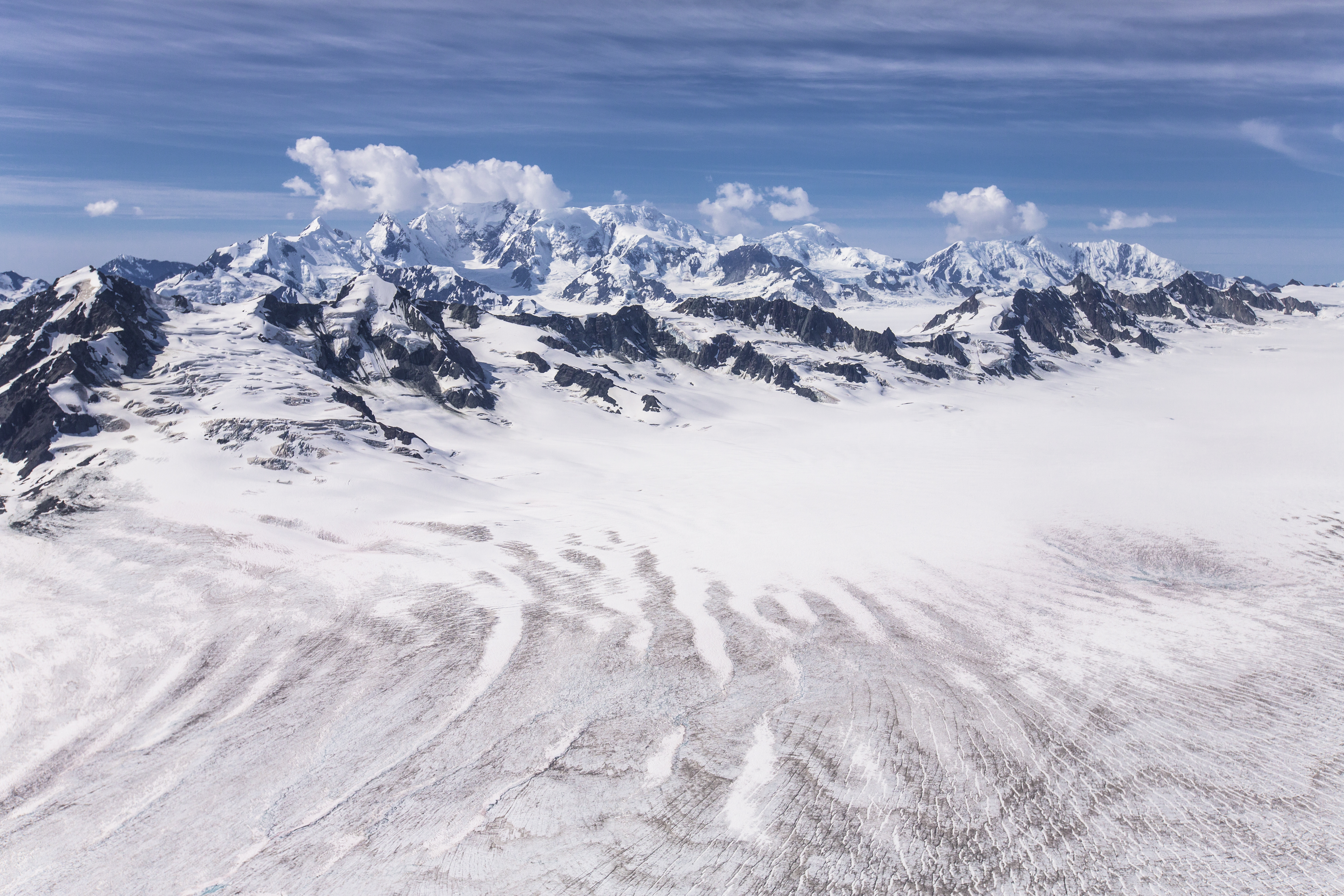 NPS / Jacob W. Frank Flight paths